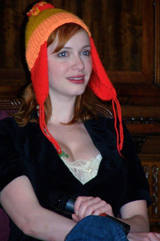 Actress Christina Hendricks